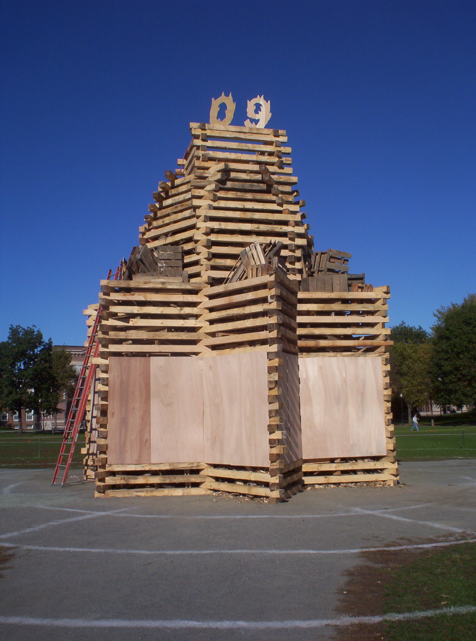 Dartmouth College's fall 2005 bonfire. I took this photo. Category:Dartmouth College